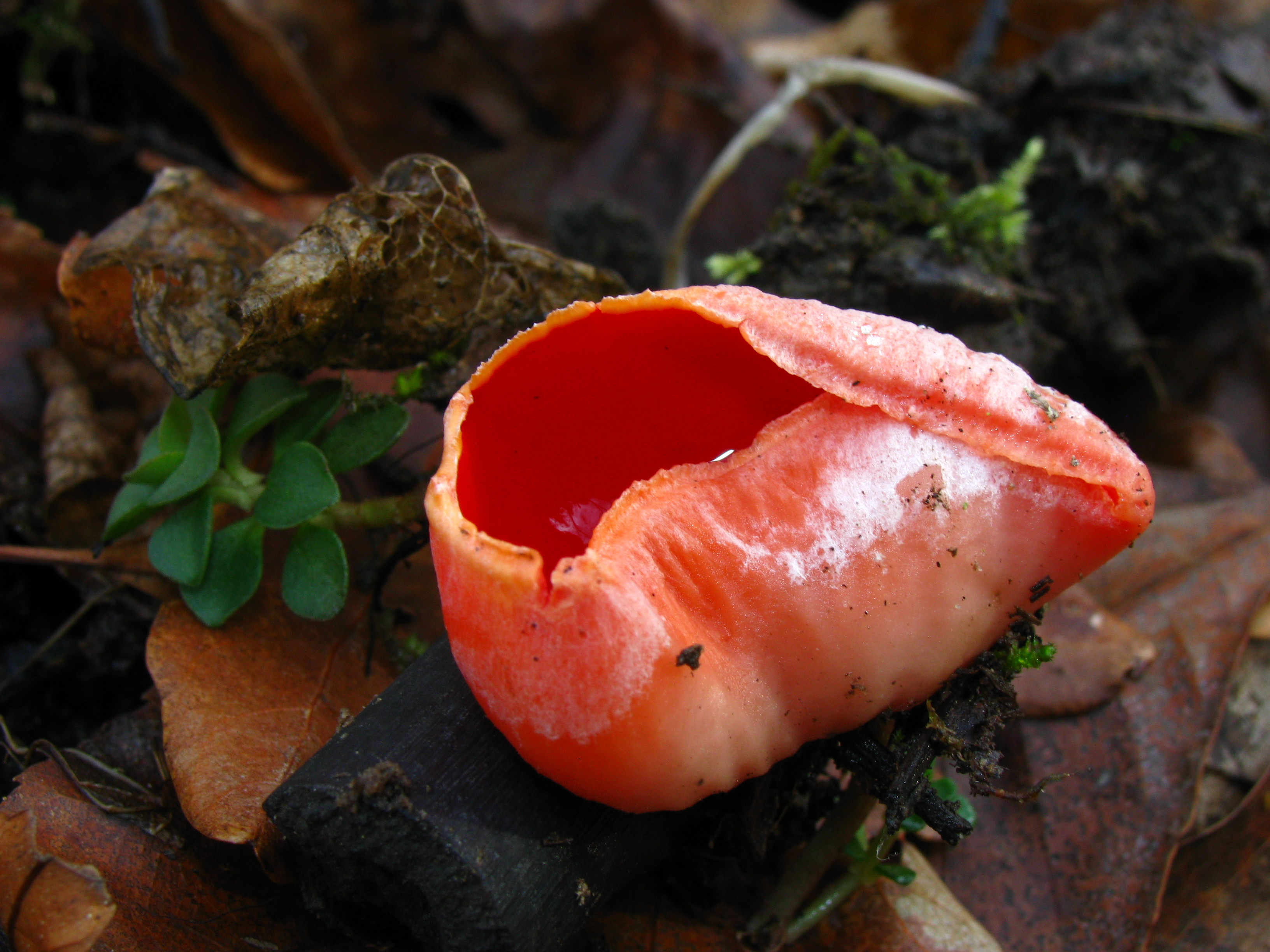 The cup fungus Sarcoscypha dudleyi. Specimen photographed in Strouds Run State Park, Athens, Ohio, USA.